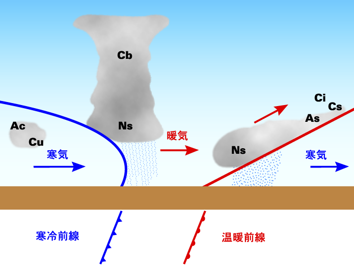 気象の前線の概要図。Kzhr が作成。 The outline of whether fronts. Created by Kzhr, 2006-02-04. Distributed by CC-by-sa 2.5.